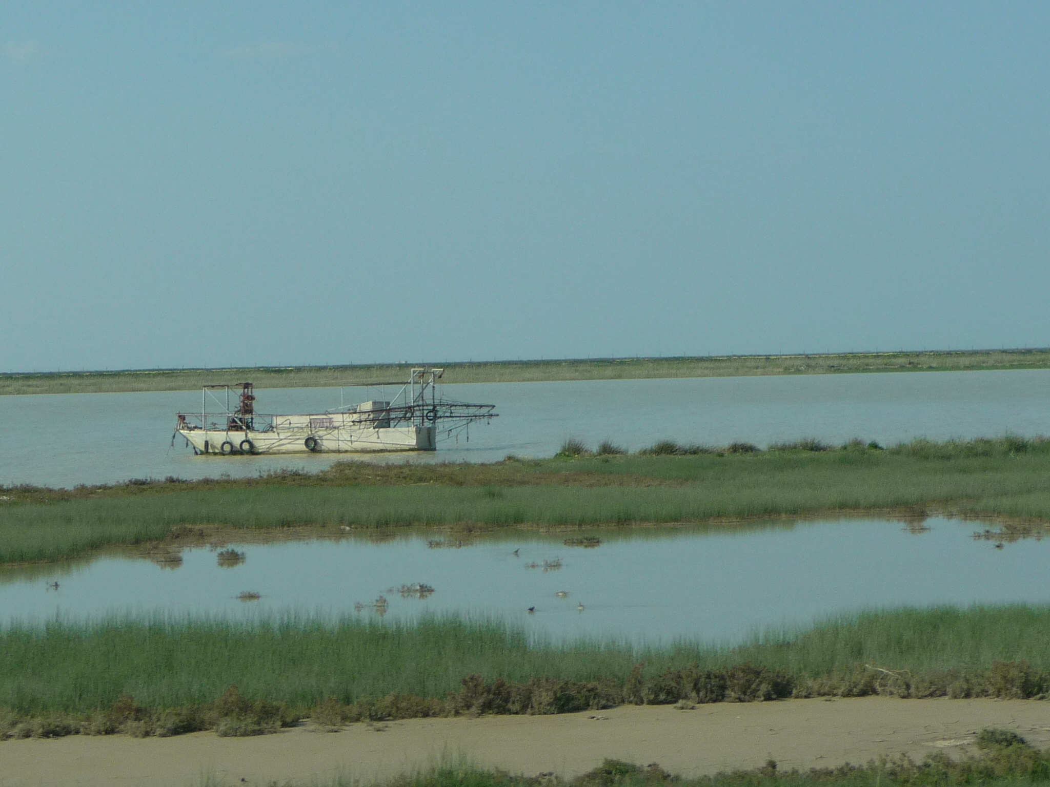 Fishing boats for "angula" and "shirmp" in Trebujena (Andalusia, Spain)